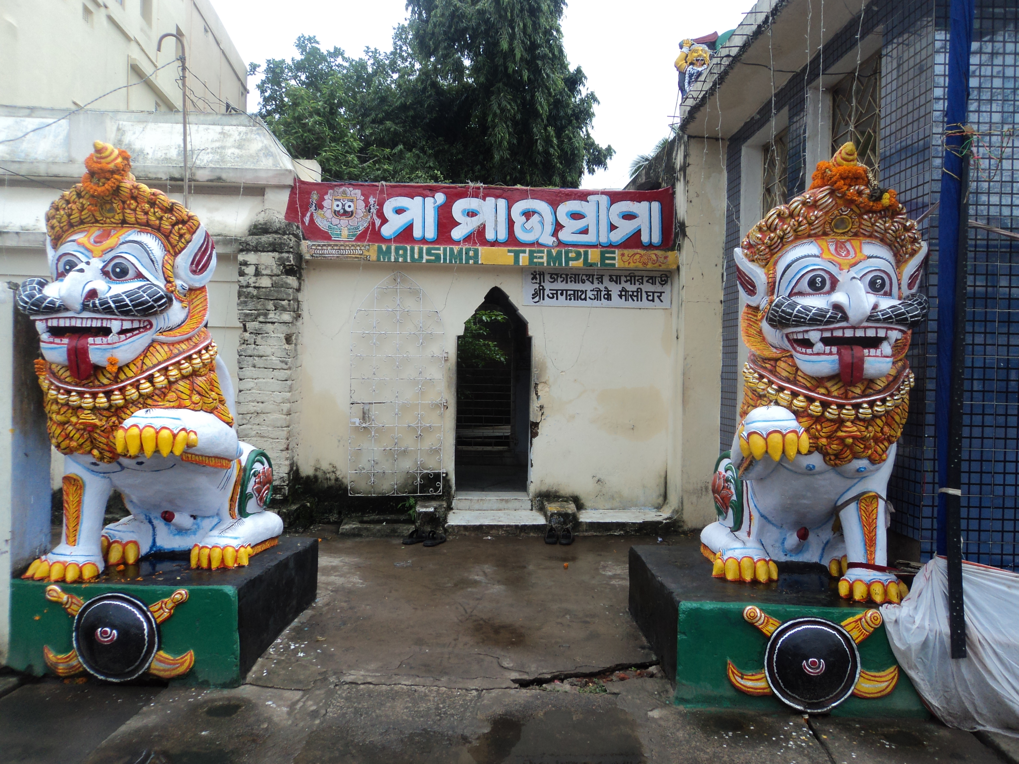 ଓଡ଼ିଆ: Mausi Maa, mother's sister of Lord Jagannath, Temple which is near Balagandi Chhak in Puri